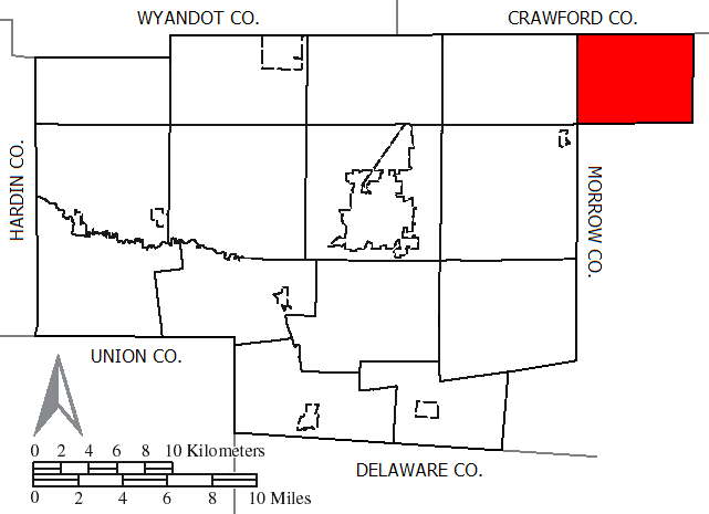 Made by the US Census and modified by myself to highlight the township